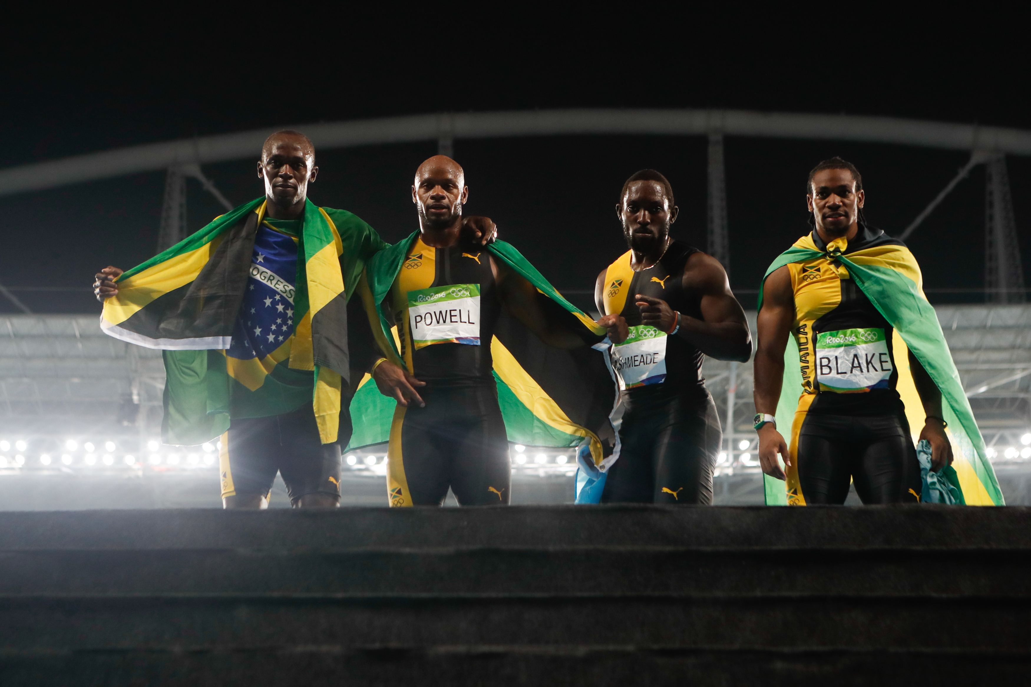 Rio de Janeiro - Usain Bolt ganha terceiro ouro nos Jogos Rio 2016 ao vencer o revezamento 4 x 100m com Asafa Powell, Yohan Blake e Nickel Ashmeade no Estádio Olímpico (Fernando Frazão/Agência Brasil)